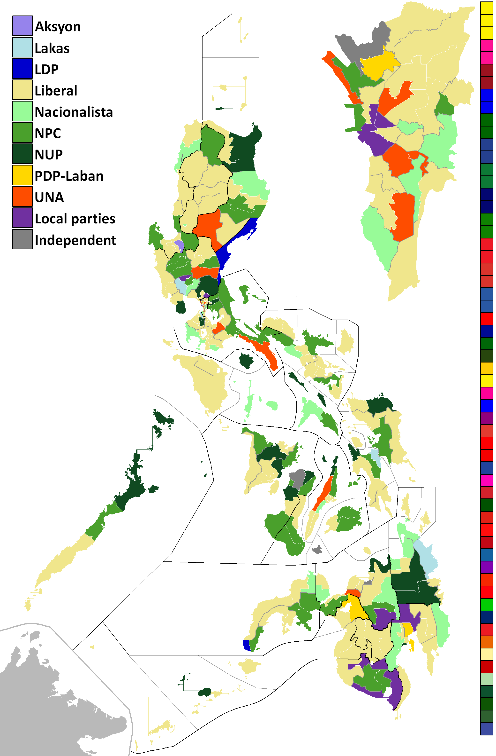 Map of the Philippine House of Representatives elections, 2016Tagalog: Mapa ng Halalan ng Kapulungan ng mga Kinatawan ng Pilipinas, 2016